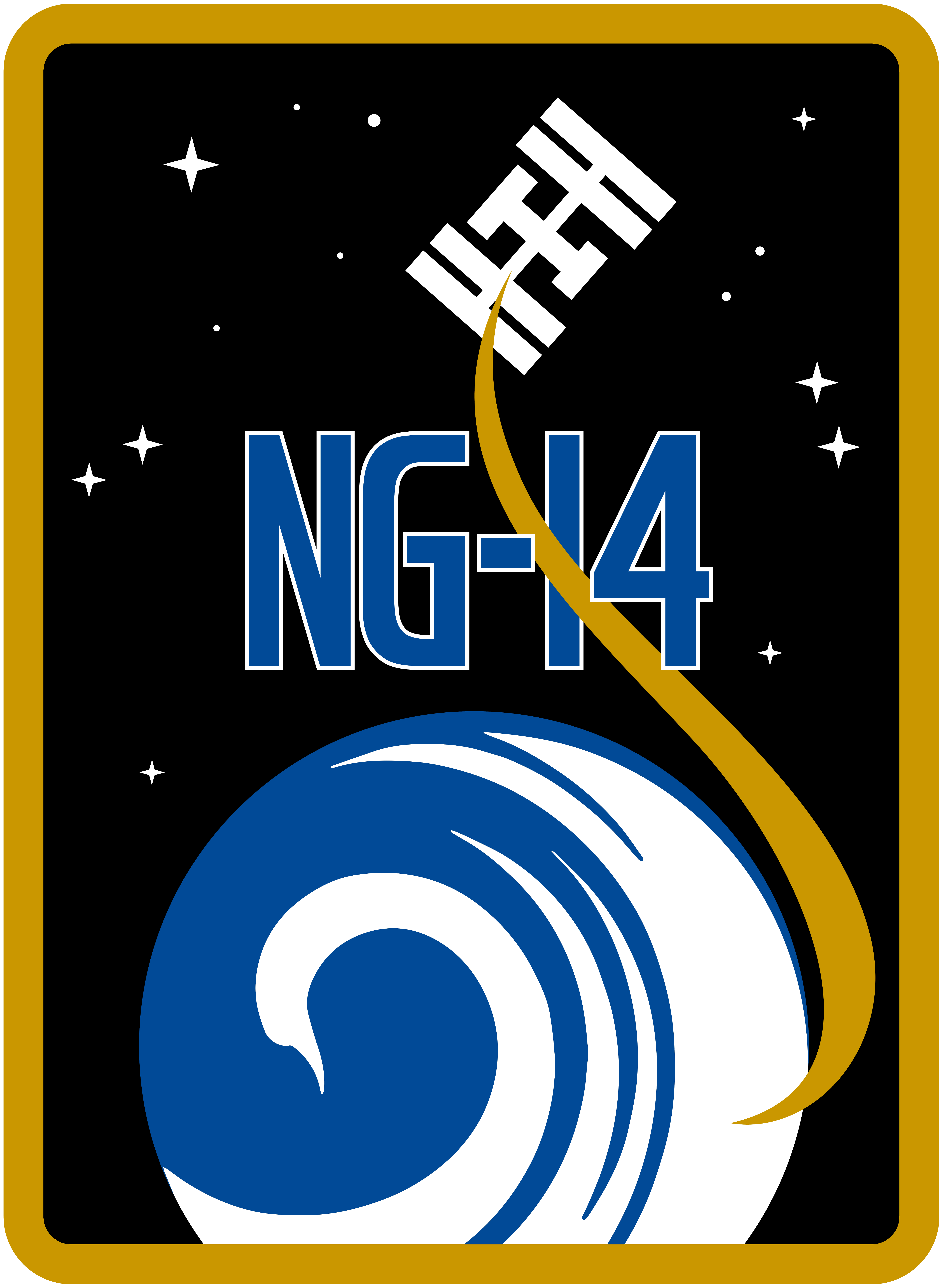 NASA logo for Northrop Grumman's NG-14 Cygnus, the third Commercial Resupply Services (CRS)-2 mission